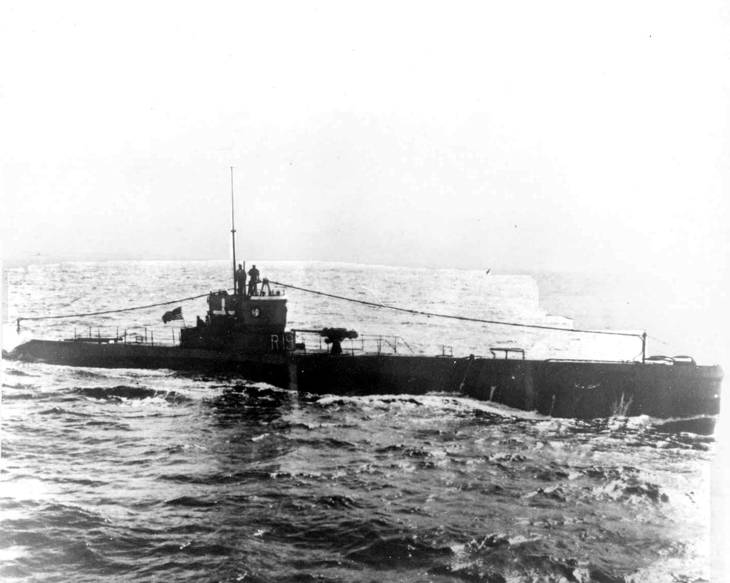 United States Navy submarine